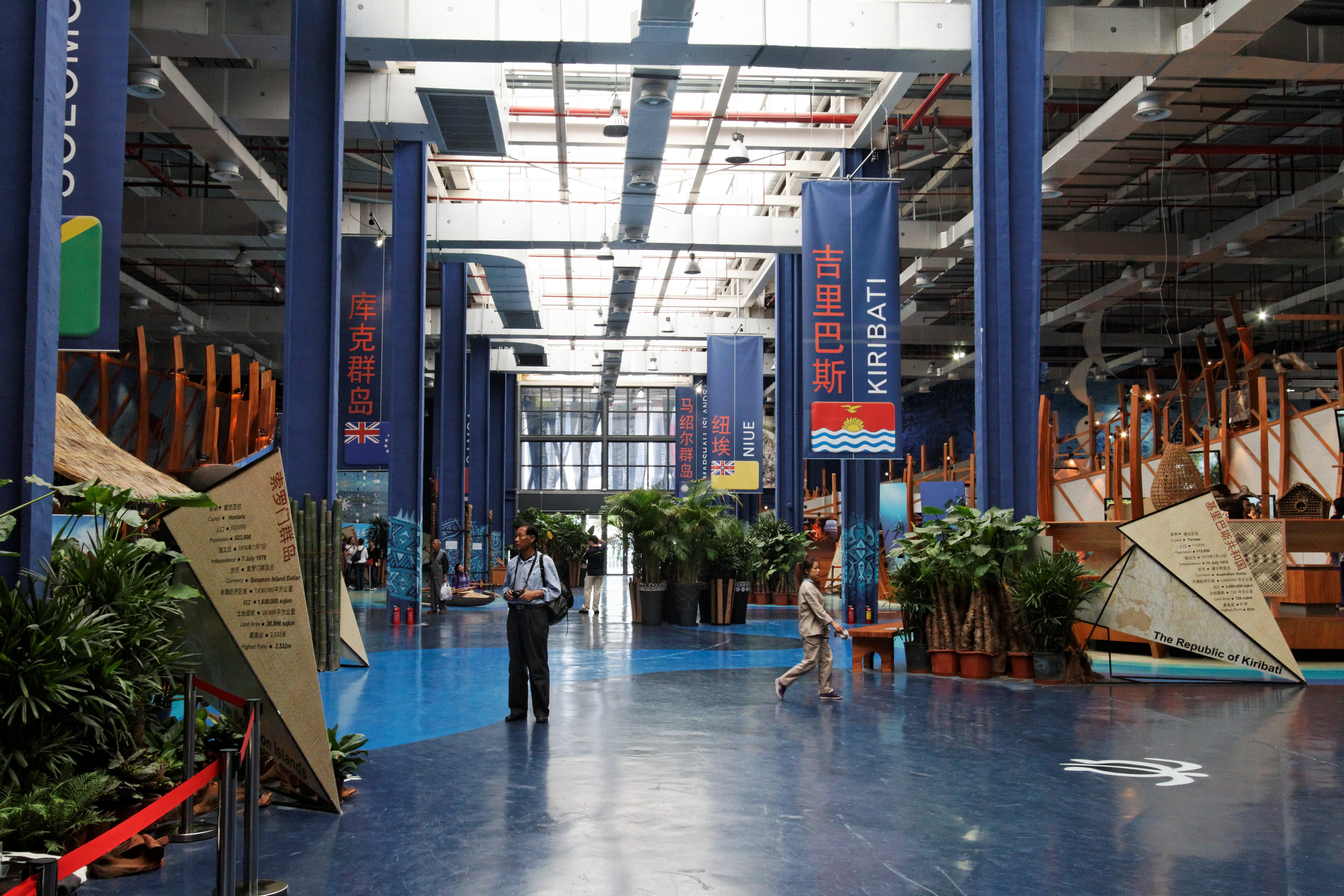 Pacific Pavilion of Expo 2010. Inside view showing Solomon Islands, Kiribati, and Niue.